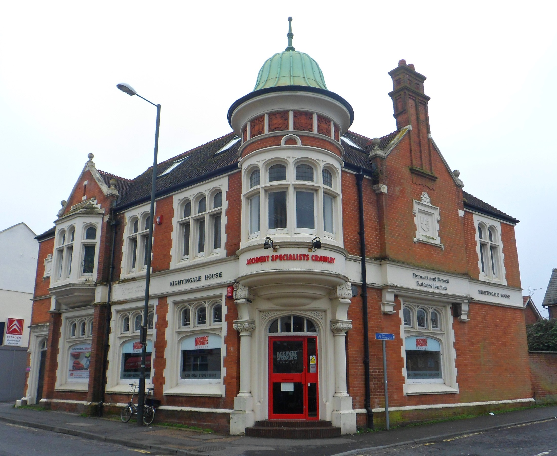 Nightingale House, Brighton Road, Southgate, Borough of Crawley, West Sussex, England. One of the borough's locally listed buildings.